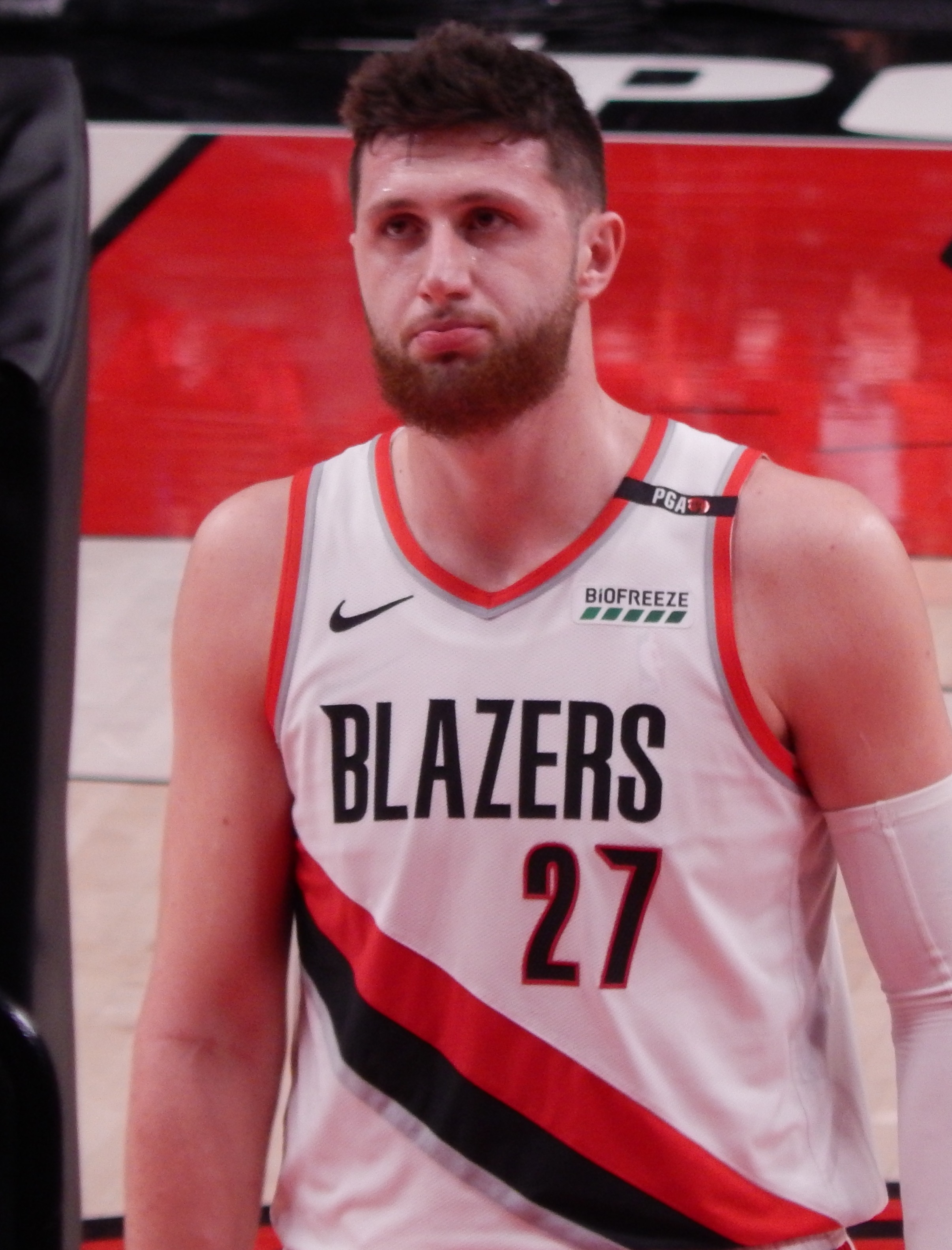 Jusuf Nurkić #27 of the Portland Trail Blazers against the Cleveland Cavaliers on January 16, 2019 at Moda Center in Portland, Oregon.